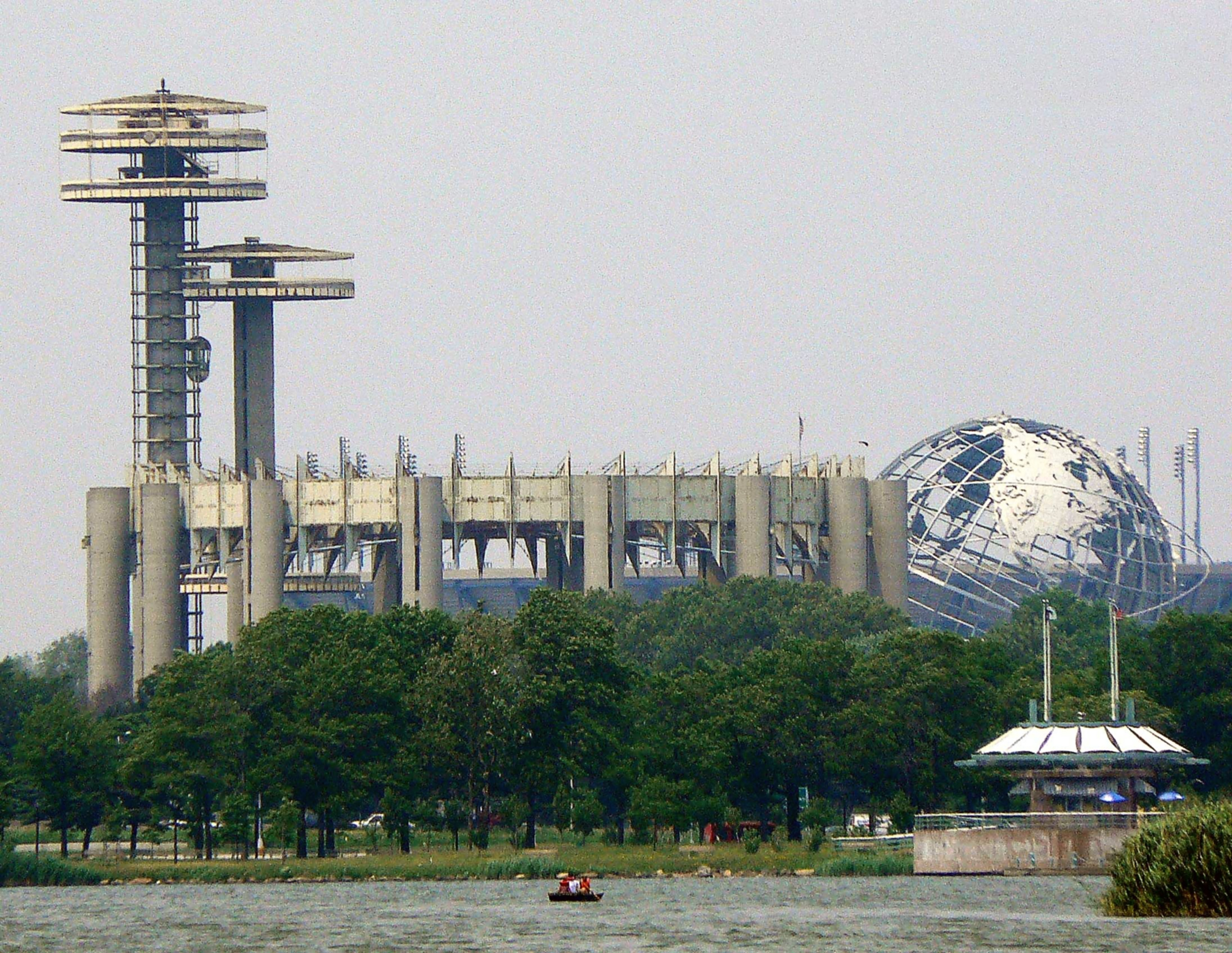 View of the New York State Pavilion and the Unisphere located at Flushing Meadows Corona Park, Queens, New York City, USA